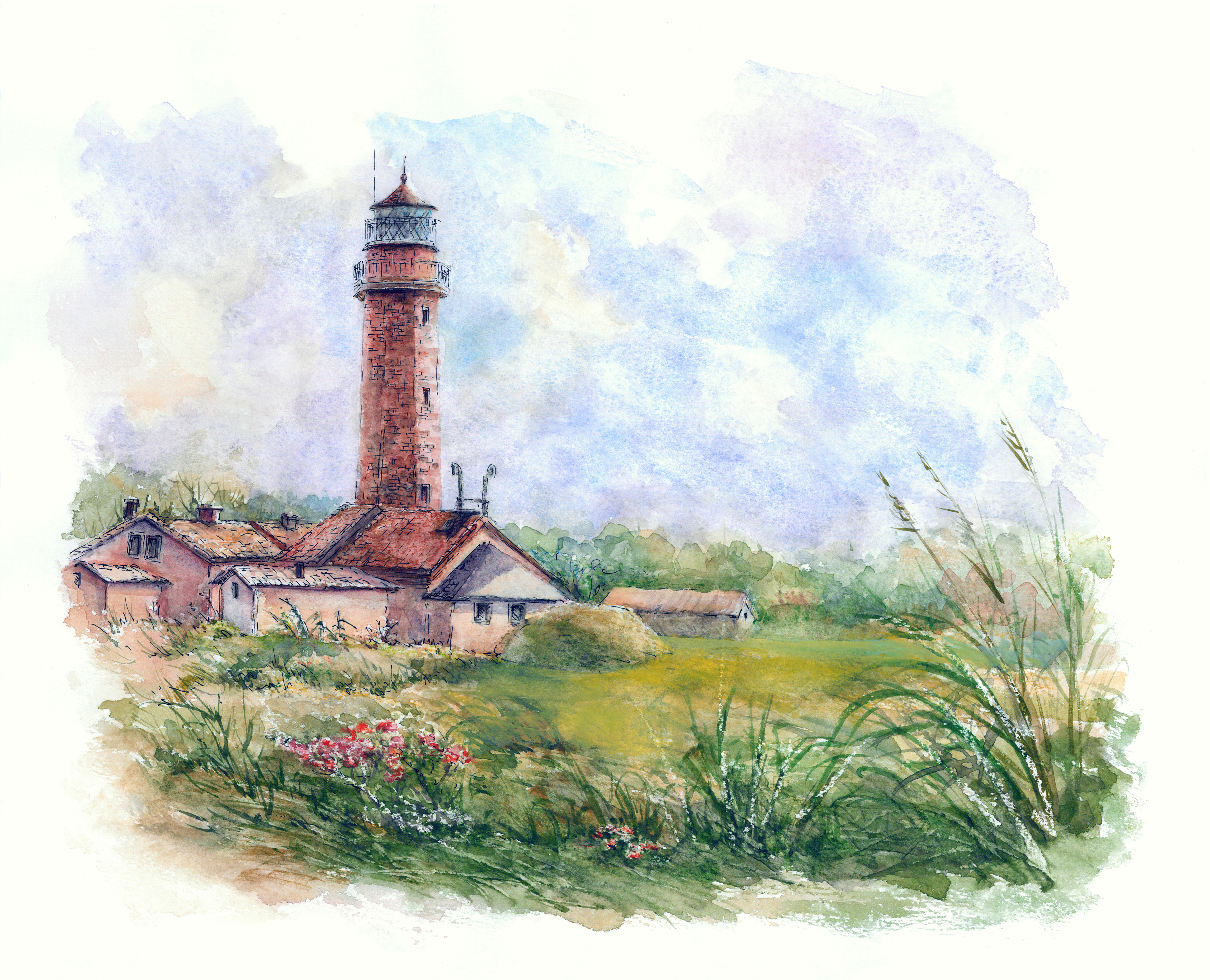 Brusterort Lighthouse (now Taran). Watercolor painting